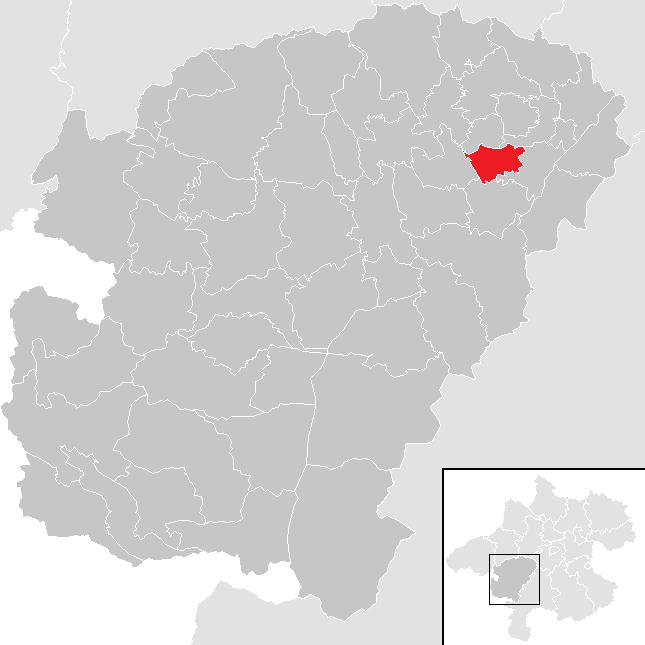 District Vöcklabruck